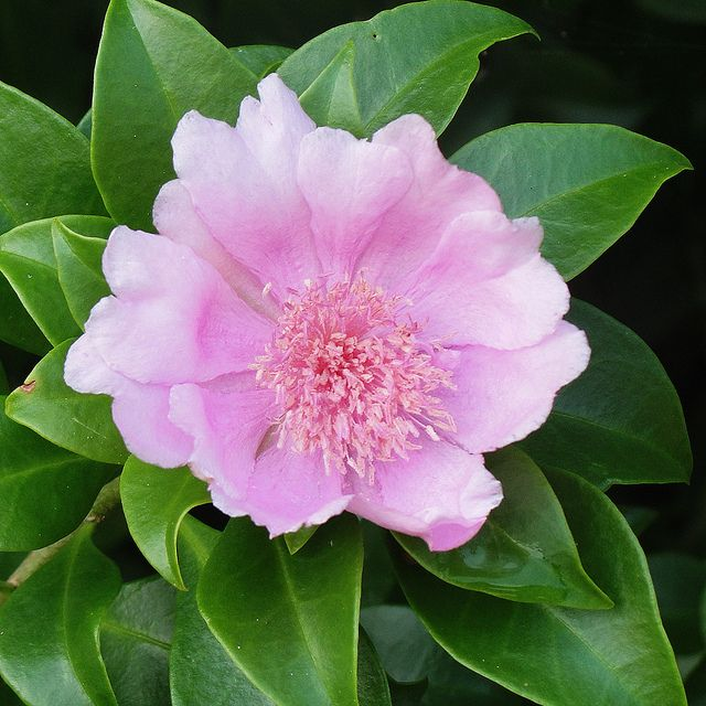 Flor Nacional Pereskia o «rosa» de Bayahibe